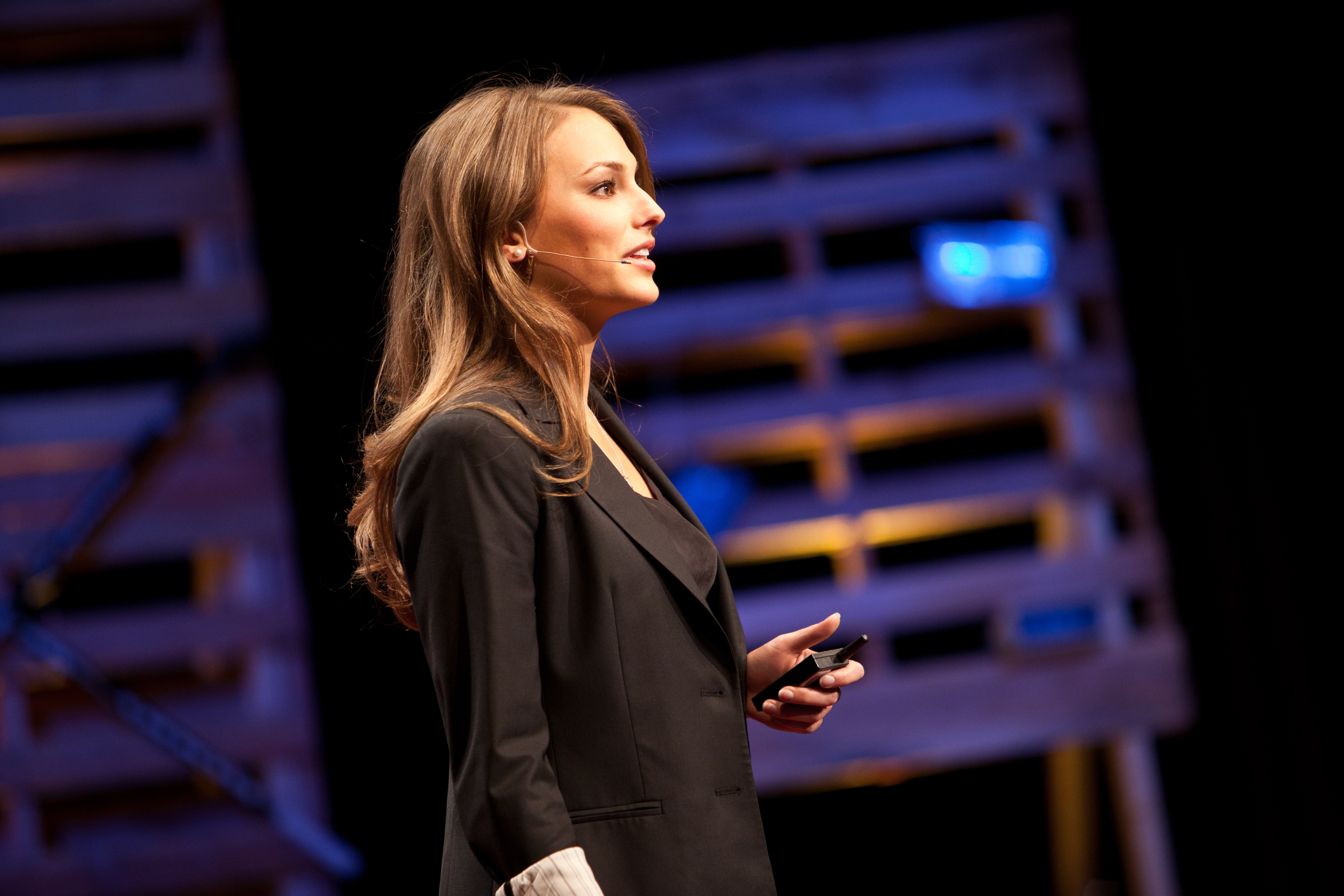 photo by Kris Krüg